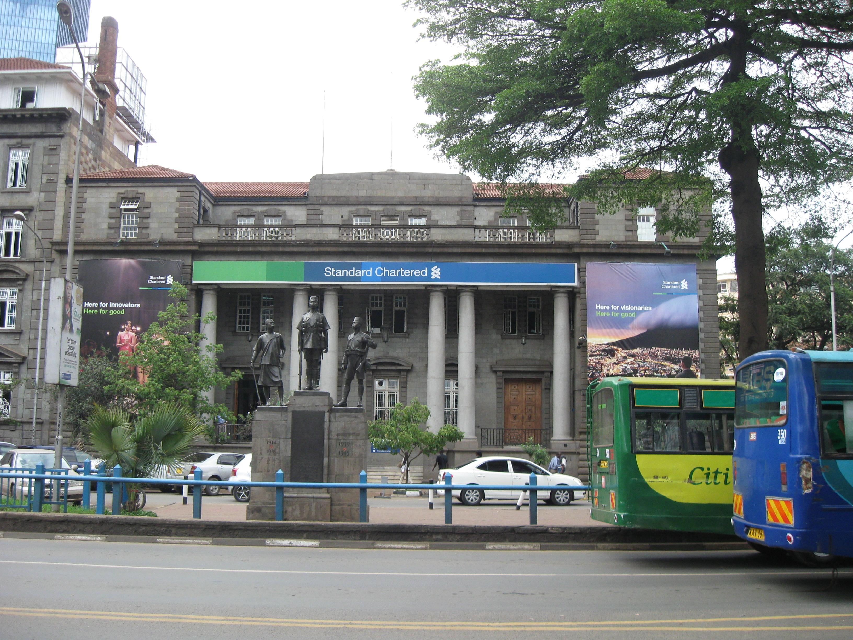 Askari monument in Nairobi, Kenya. Standard Chartered Bank is in the background.